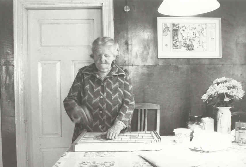 Maria Murman, a Swedish-speaking woman at the island Ormsö/Wormsi in Estonia.